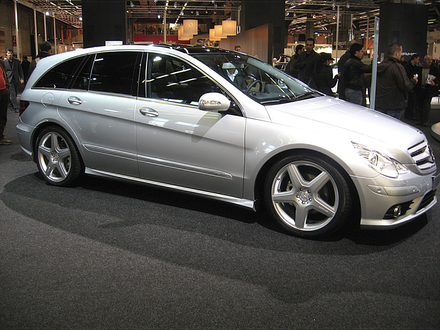 Subject:Mercedes-Benz Classe R W251 with AMG package Author:Luc106 Date:December 13th, 2007 Event:Motor Show Bologna 2007 Place/Country: Bologna, Italy I release all rights in the public domain.